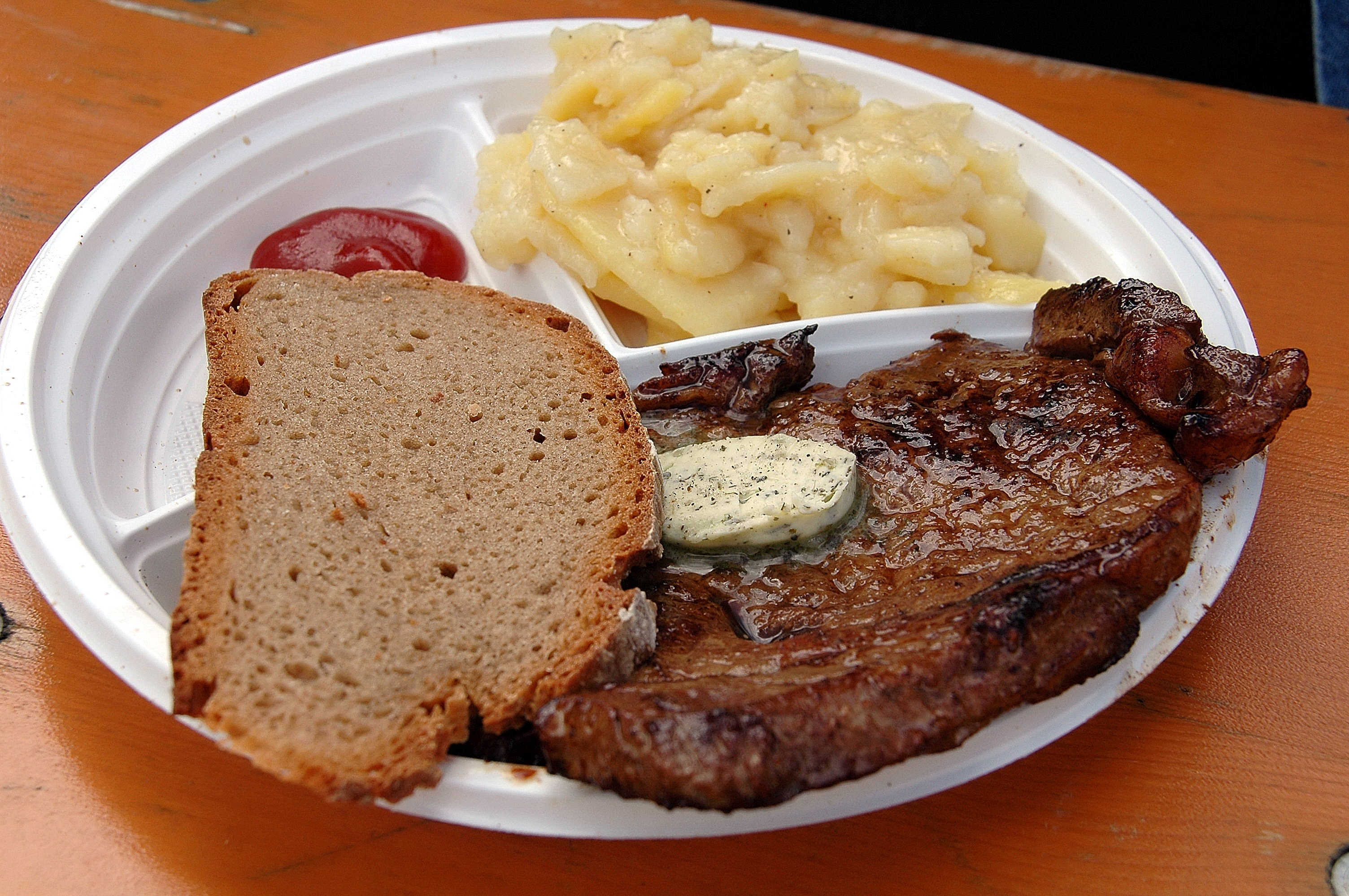 Served beef-steak ready for being eaten at the beef-festival on the Ossiacher Tauern in the community of Ossiach, district Feldkirchen, Carinthia, Austria